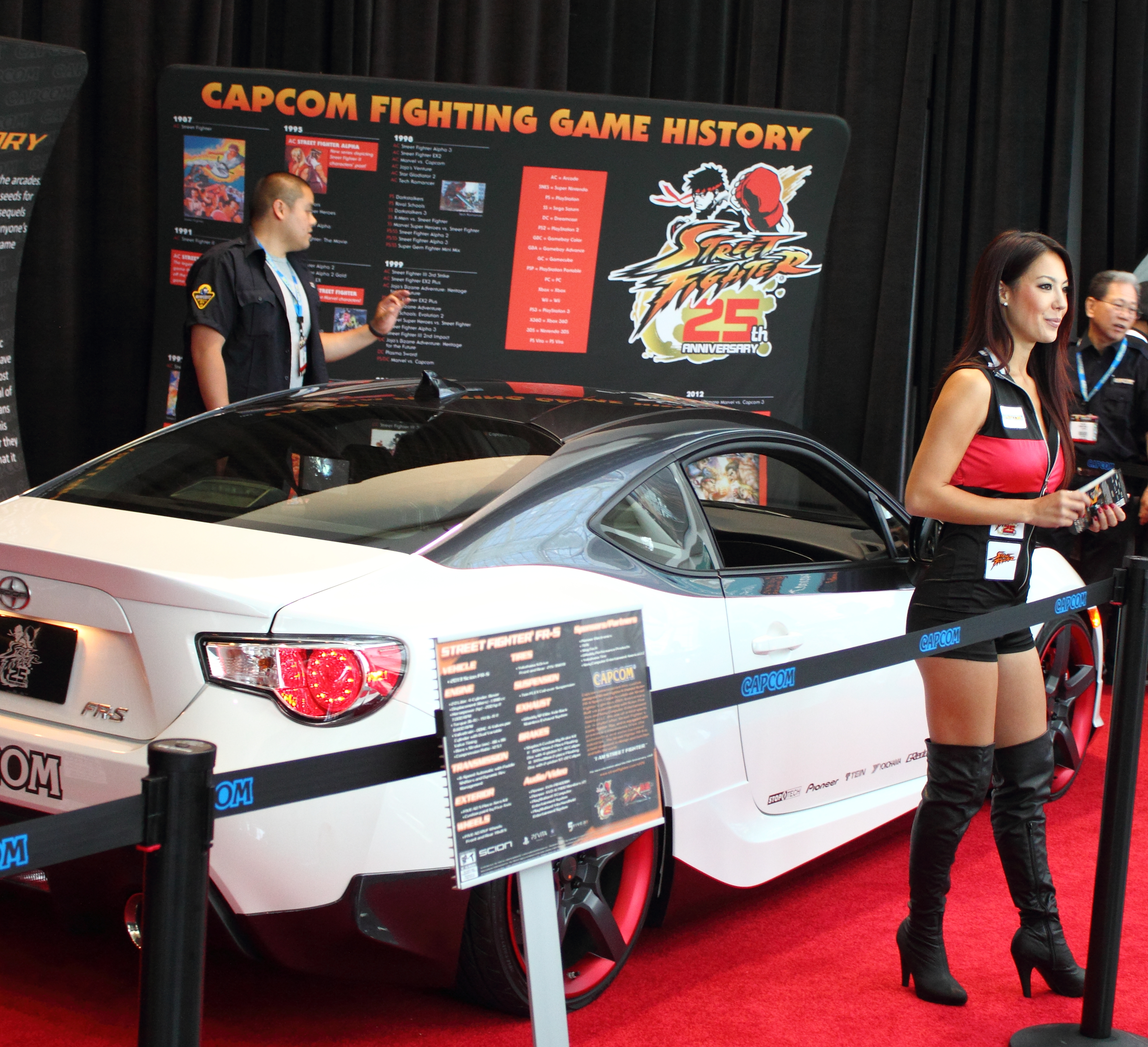 Pictures from E3 2012, Day 1 - From GeekGamer.TV